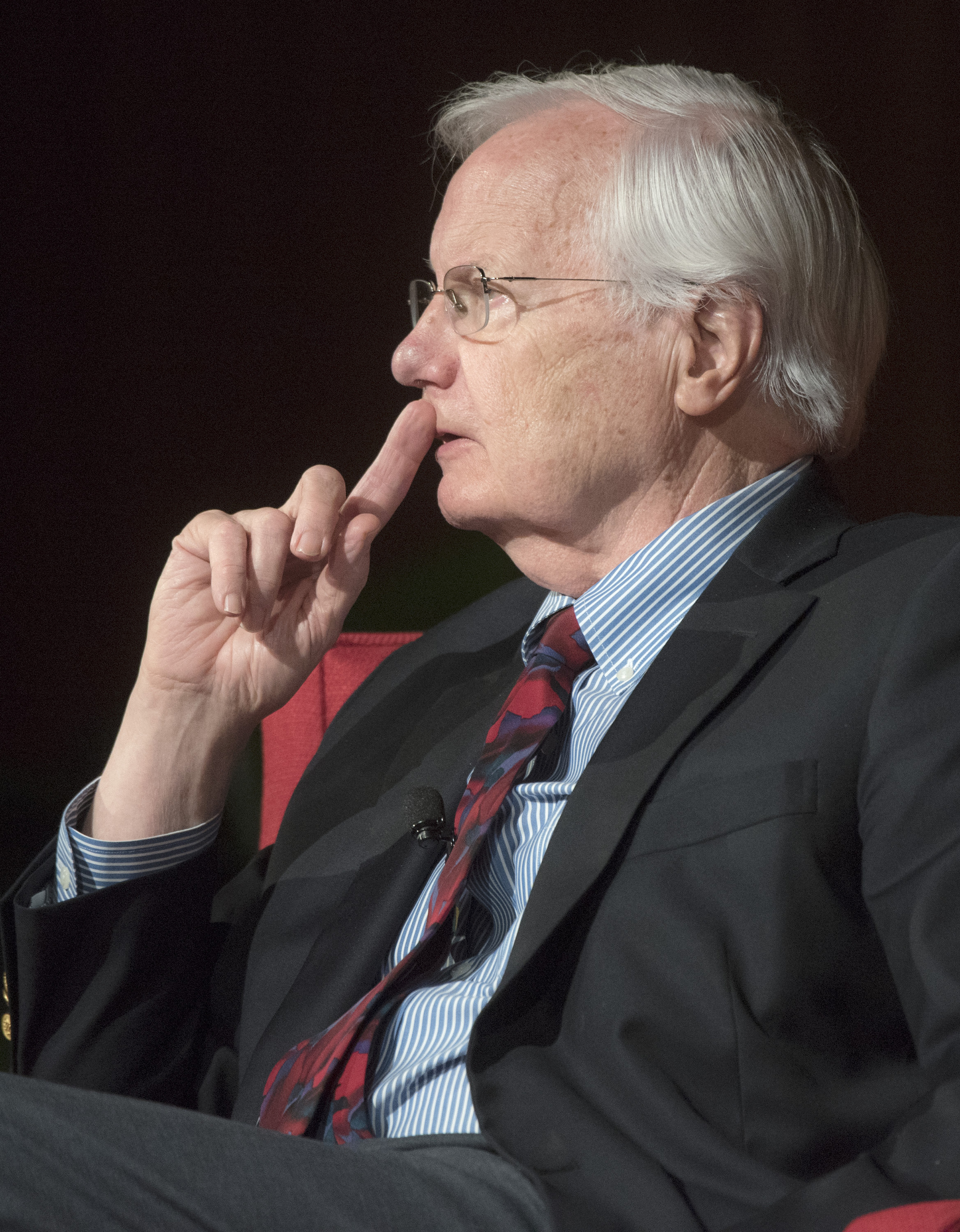 On Thursday, June 14, 2018, the LBJ Presidential Library hosted a conversation about 1968, one of the most momentous years in American history. The panel included Lyndon and Lady Bird Johnson's daughter, Lynda Johnson Robb, LBJ White House aide Tom Johnson, LBJ's press secretary Bill Moyers, and professor and author Kyle Longley.